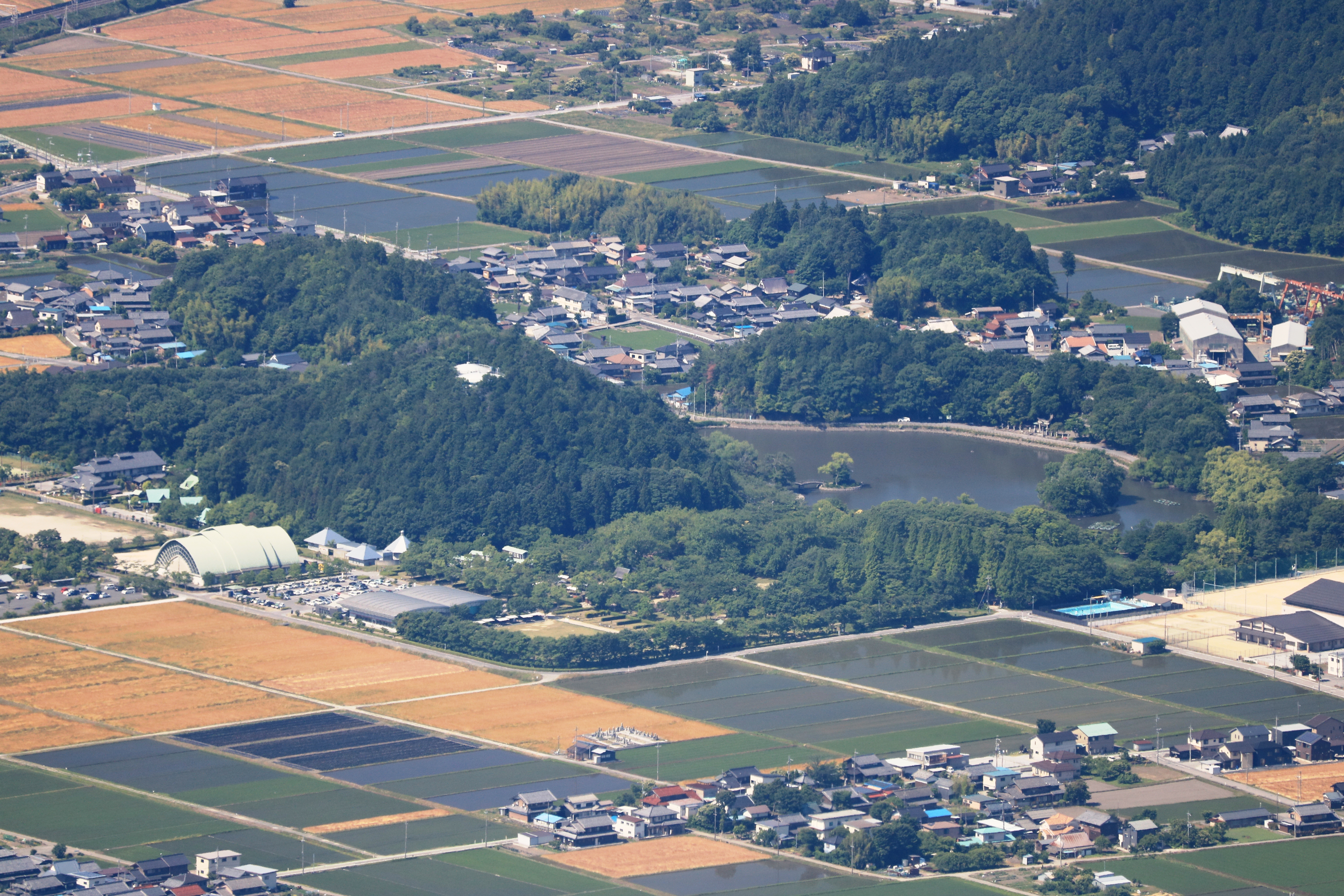 Mishima Pond seen from Mount Ibuki, Maibara, Shiga prefecture, Japan.